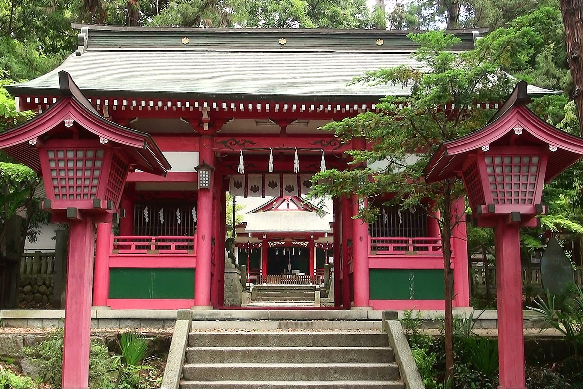 Kandatenjinja shrine Koshu-city